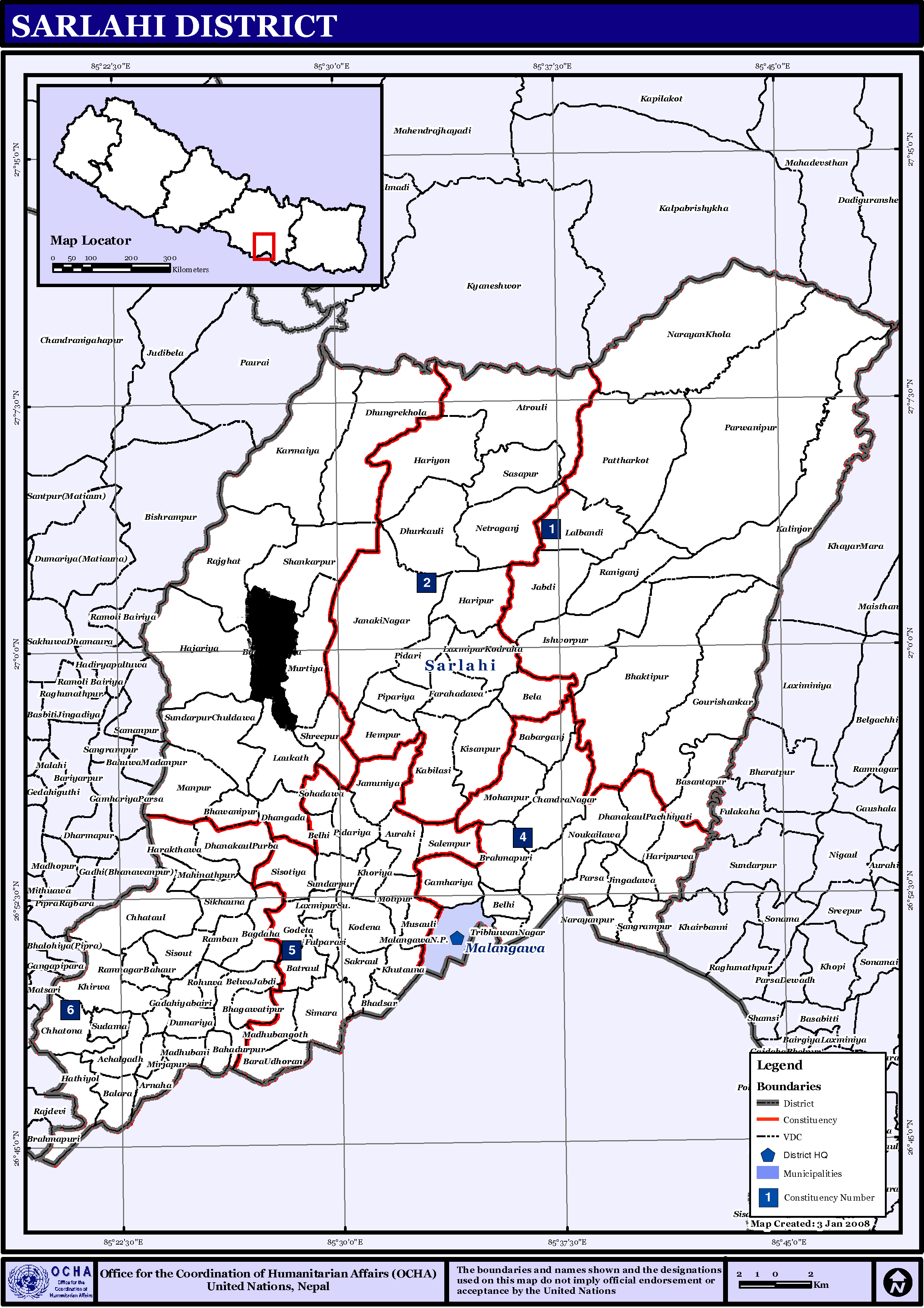 Map displaying Barahathawa, Nepal